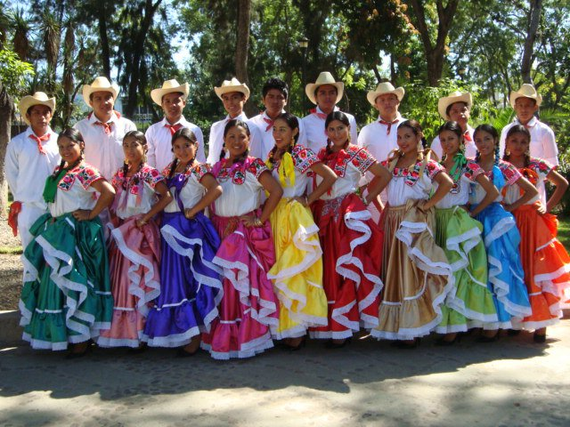 Club Dance Álvaro Carrillo, the Chilean Cacahuatepec dance, by Costarrican interpretes.